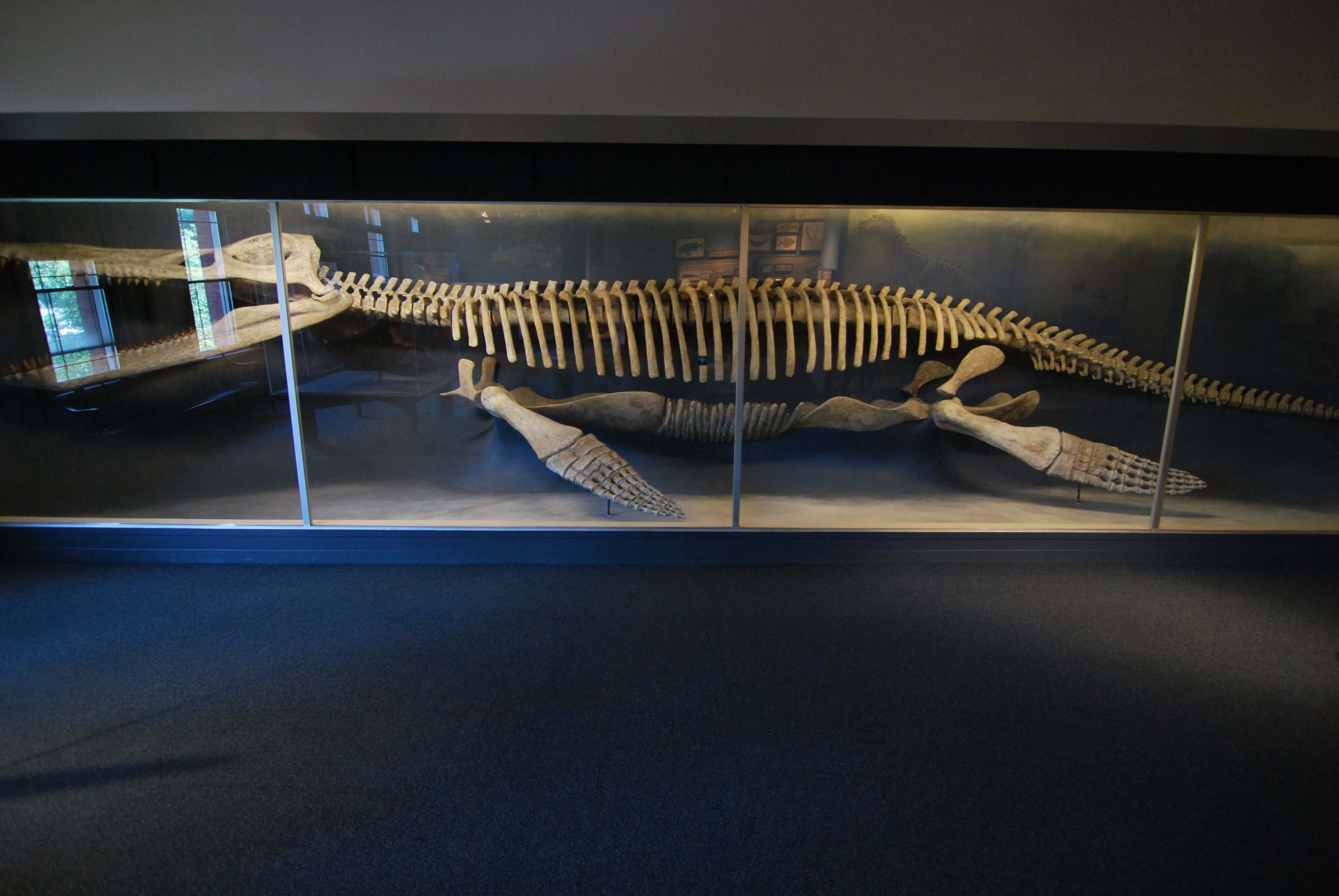 Harvard Museum of Natural History, Comparative Zoology